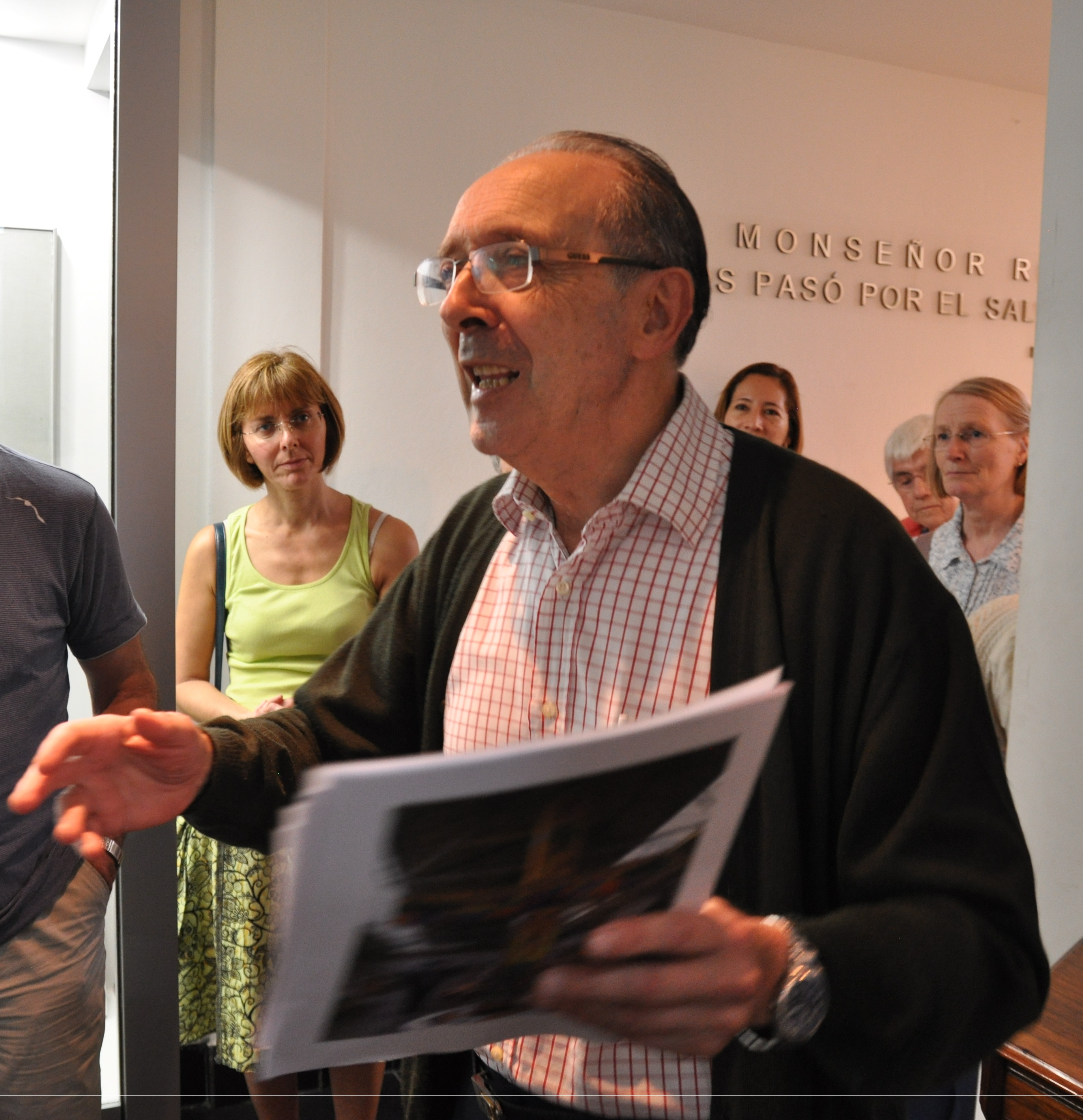 Jon Sobrino, at UCA, Sala de Mártires, El Salvador